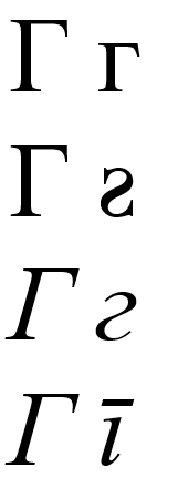 picture of the Cyrillic letter Г, designed to replace Image:Cyrillic G.png, which contains the oblique form used in Russian, Ukrainian, Belarusian and Bulgarian, but not the one used in Serbian and Macedonian